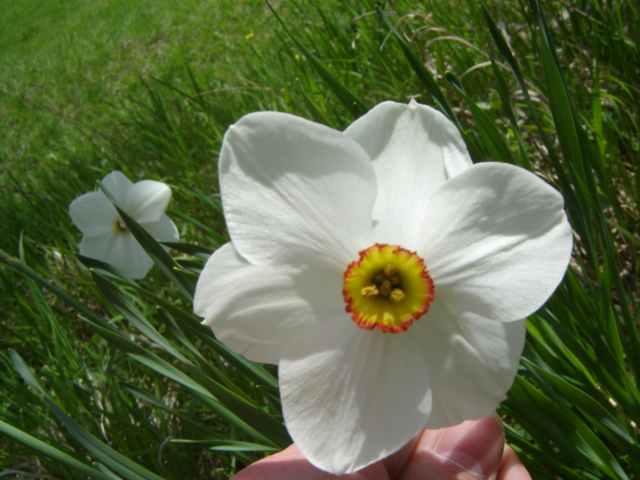 Narcissus poeticus (Flower Closeup) (Photo near Löberschütz in Germany)